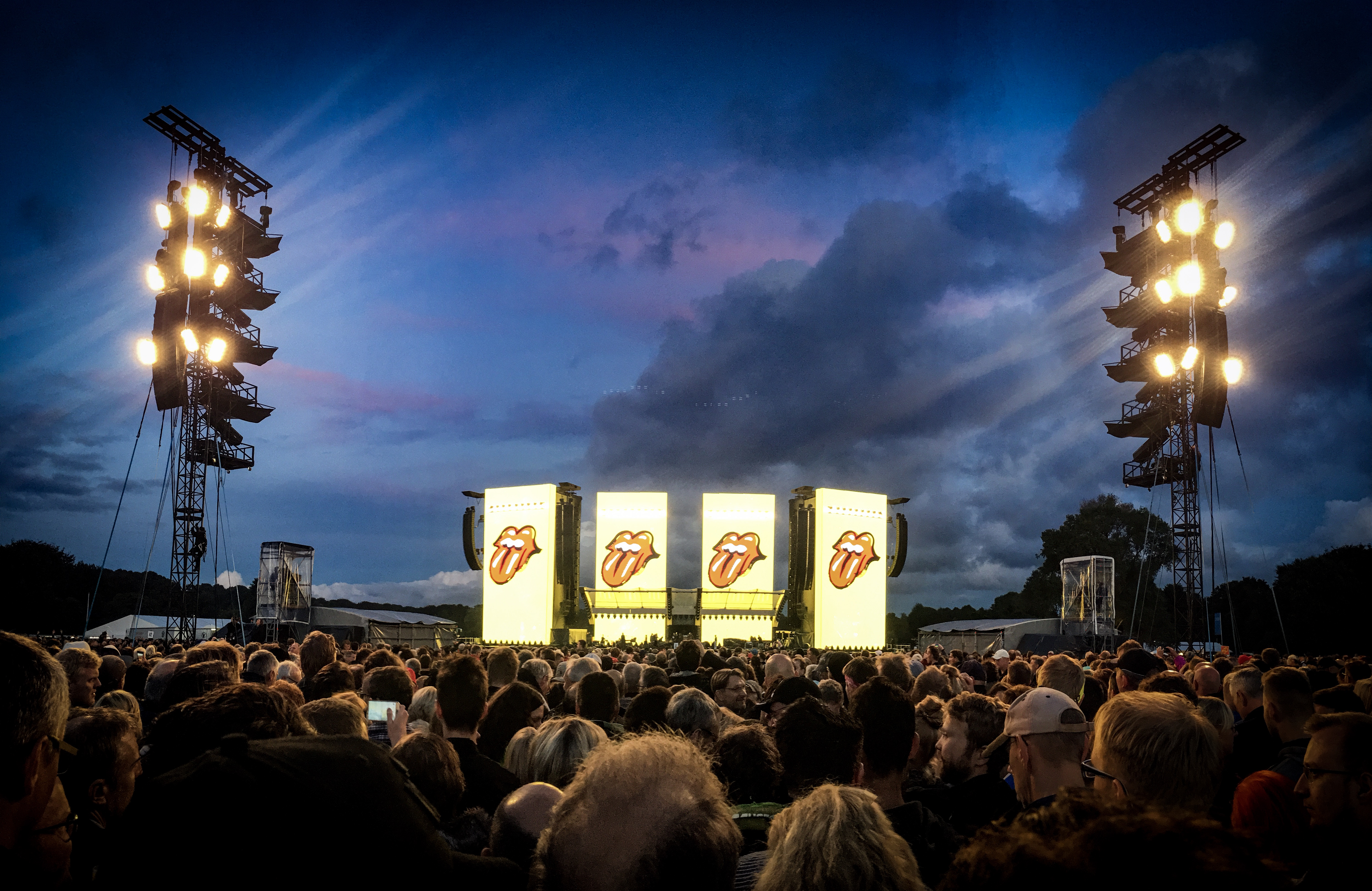 The stage of The Rolling Stones' No Filter Tour. Here at the opening show in Hamburg (Germany) at Stadtpark Festwiese. Picture is taken five minutes before the show has started.